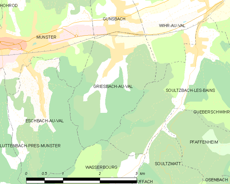 Map of French municipality